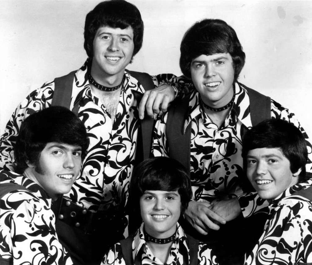 Publicity photo of the music group The Osmonds.